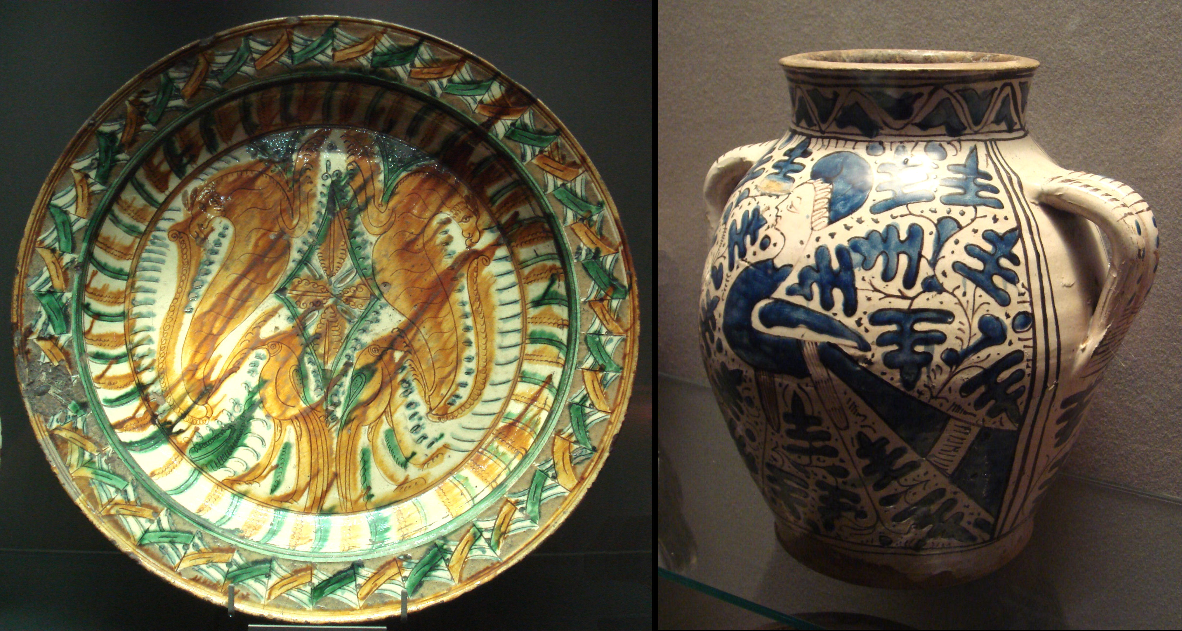 Mid-15th Century Pottery, Northern Italy